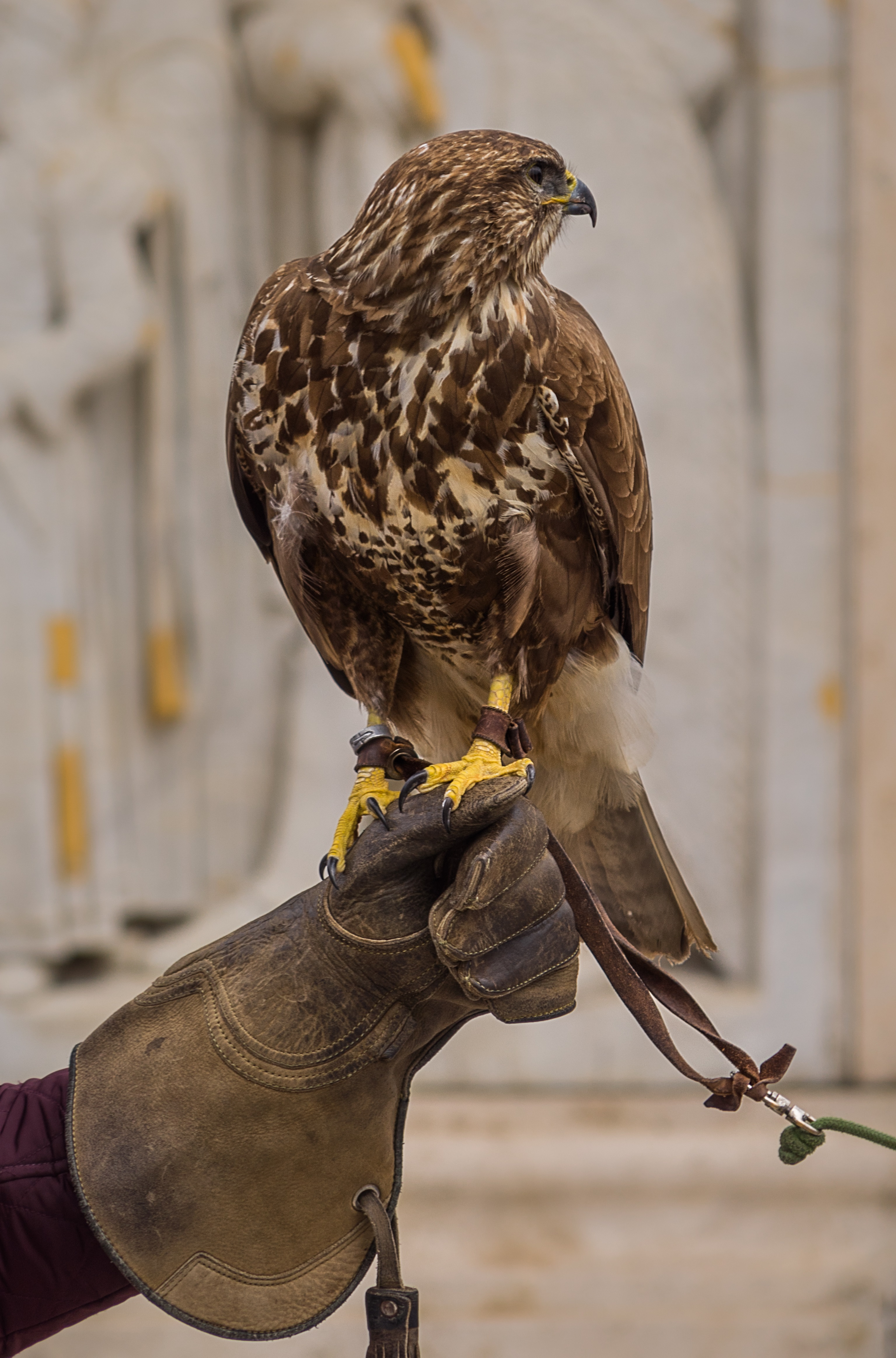 Eagle eye After a nice free walking tour around Budapest we are around Fisherman's bastion and we spot an Eagle keeper. What an amazing animal, Eagle is. I have never seen it so close and it knew how to pose too ;)